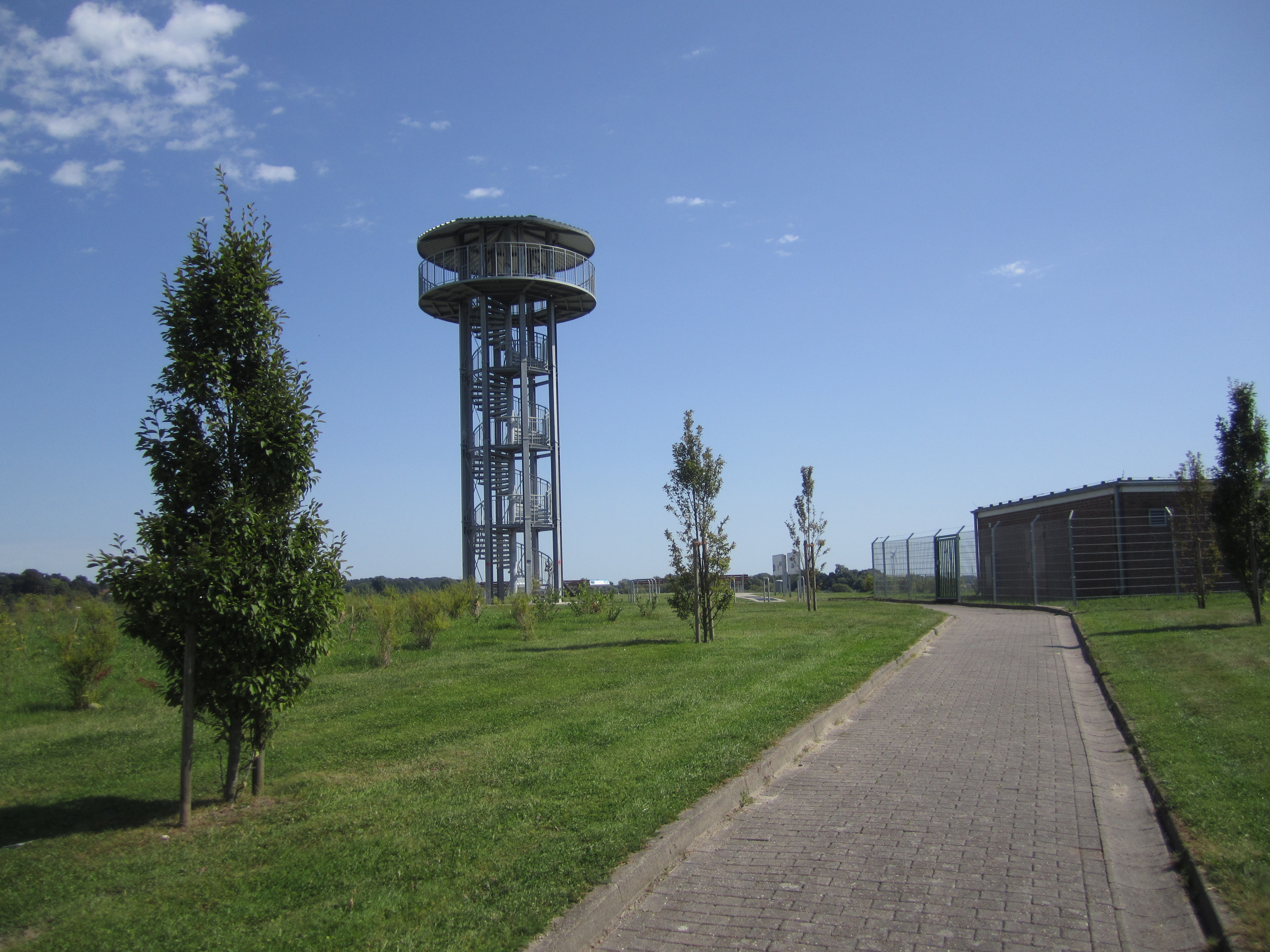 Observation tower in Lemwerder, Germany, which gives a view over the Weser river.